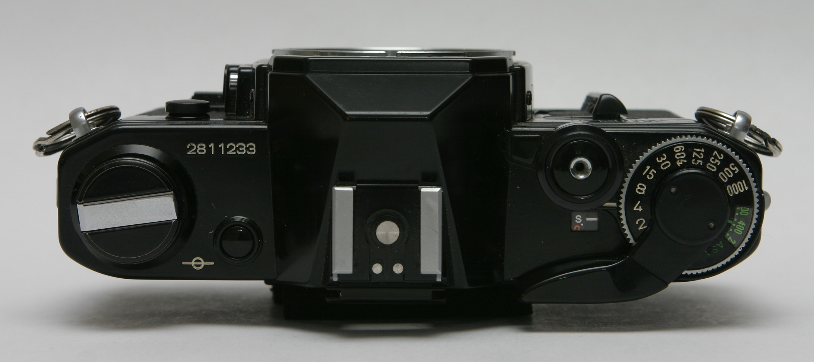 Black Canon AE-1 (1976) SLR camera from the top